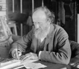 John Barton Arundel Acland, youngest son of Sir Thomas Dyke Acland, was one among a number of the English gentry who migrated in the 1840s and 1850s. Acland and his friend Charles Tripp arrived in Lyttelton in 1855, and acquired 114,000 acres (46,134 hectares) in the Rangitātā area. Their partnership ended in 1862, with Acland taking Mt Peel in South Canterbury. This photograph of Acland in his study at Mt Peel station in 1893 was taken by his daughter Harriet.